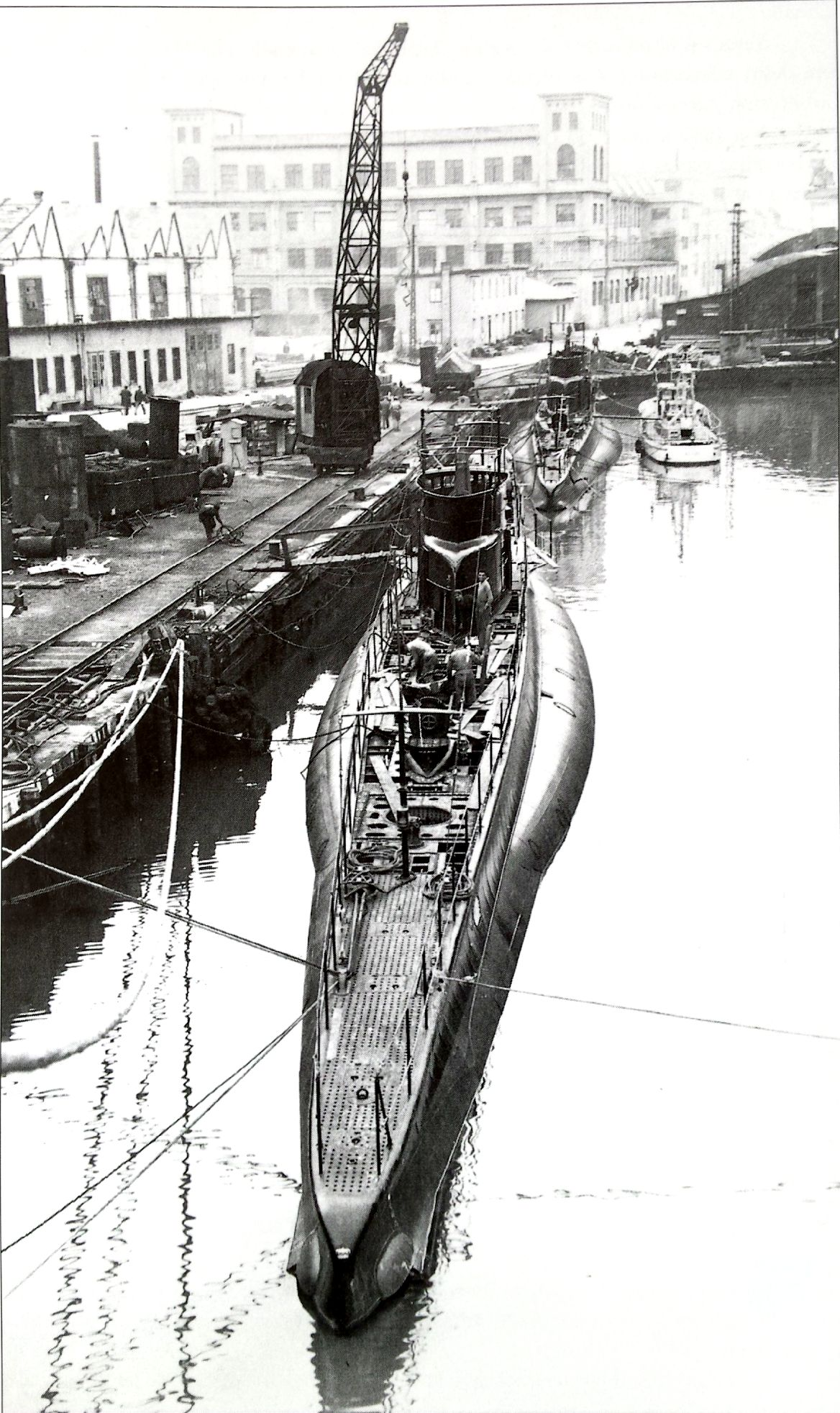 RIN Turchese